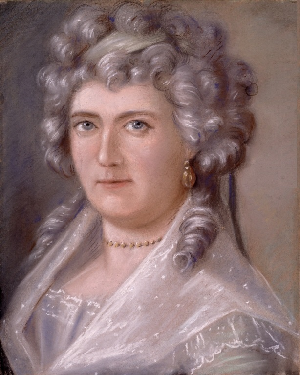 Portrait of Christiana Munro of Fowlis, afterwards Mrs Philip Mount of Montreal.